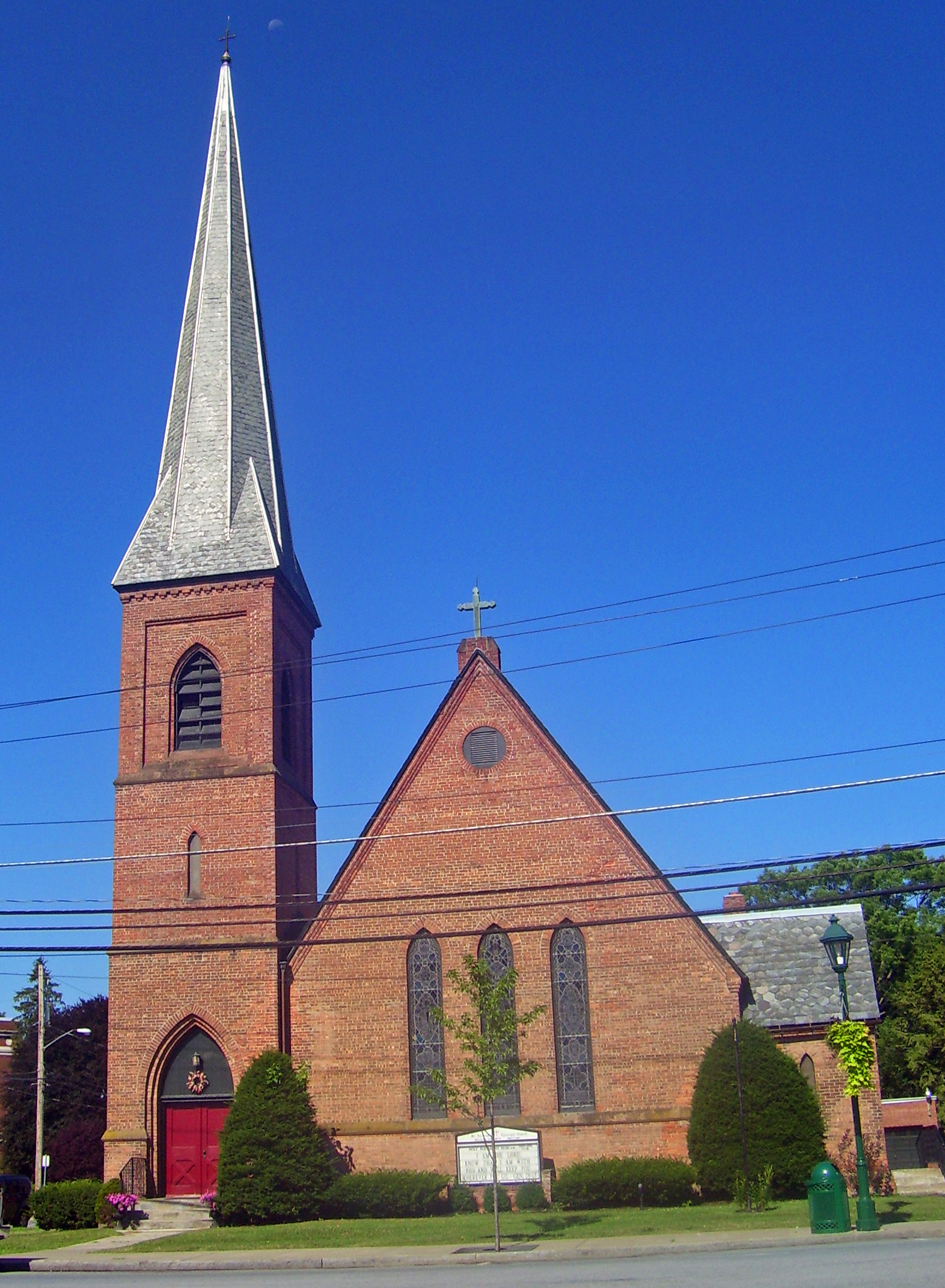 St. Andrew's Episcopal Church, designed by Charles Babcockc, in Walden, NY, USA